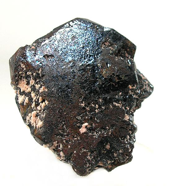 Davidite-(La) Locality: Beqtau-Ata (Bektau-Ata), Qaraghandy Oblysy (Karaganda Oblast'), Kazakhstan (Locality at ) This rare earth crystal is characterized by brilliant metallic luster along with a silver-black color. Although slightly rough around the perifera, it is nevertheless complete and VERY large for the species. Slightly radioactive. A rare mineral indeed! 3.6 x 3.5 x 1 cm